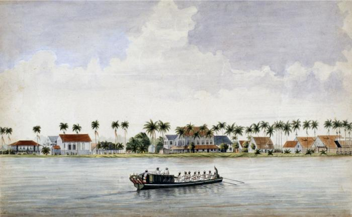 Houses of sugar plantation 'Catharina Sophia' by the Saramacca River